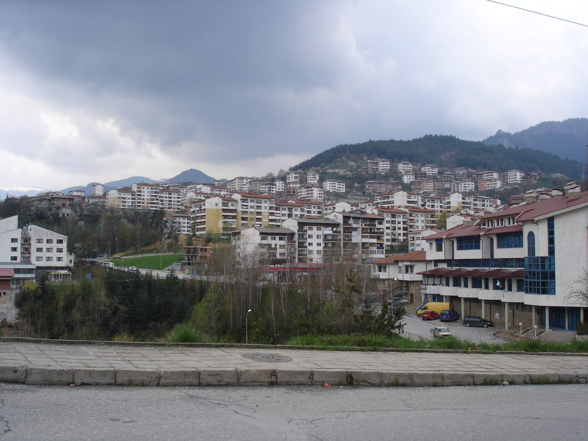 View towards Smolian, Bulgaria